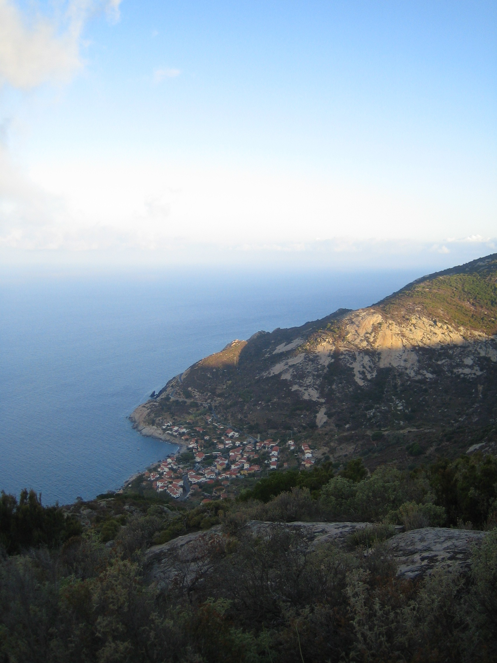 View of Chiessi